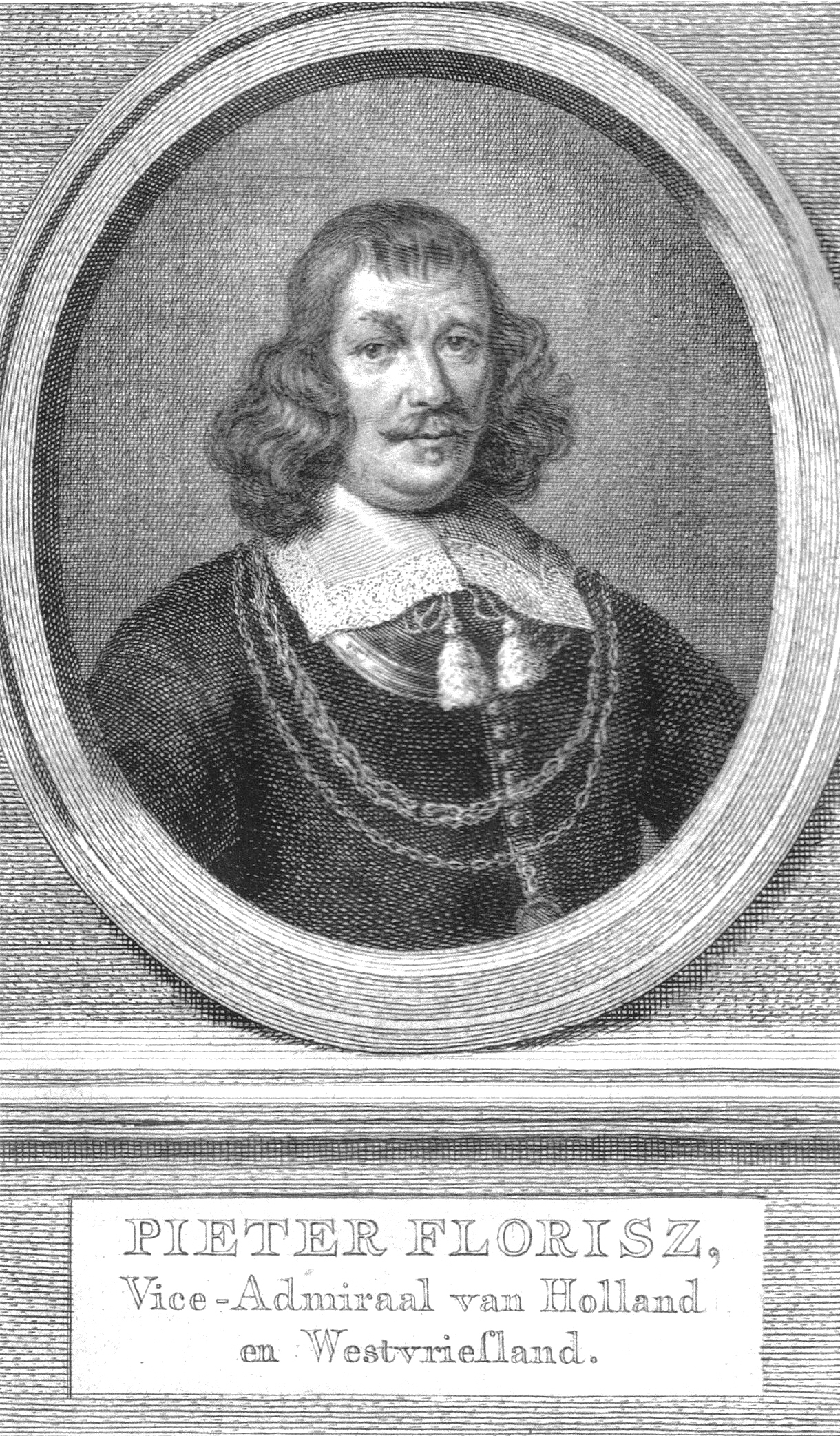 Portrait of Pieter Florisse. etching.